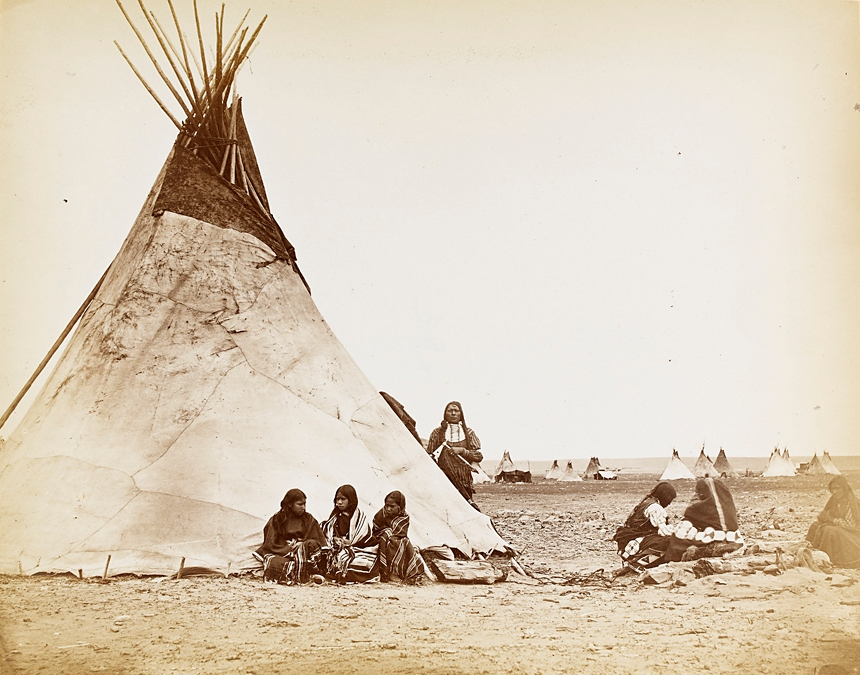 Arapaho camp View of Camp Showing Three Girls and Group of Men in Native Dress, One Man with Hairpipe Breastplate and Pipe-Tomahawk Outside Tipis; Tipis in Background 1867-75.[1] “The Soule album identifies this simply as an Arapaho camp. The tipis are in an open, flat, treeless plain. The soil is sandy. and the grass has either been worn away or cropped off by the Indian horse herds. Some firewood must be available nearby, as is seen from the log on which the women are seated. The Indians are dressed in their best clothes for the picture-making, but the three men on the right are indifferent to the work of the photographer, being absorbed in a gambling game” —Smithsonian Institution, Bureau of American Ethnology, In: Wilbur Sturtevant Nye, Plains Indian raiders : the final phases of warfare from the Arkansas to the Red River, with original photographs by William S. Soule. University of Oklahoma Press, 1st edition, 1968, ISBN 0806111755, p338.